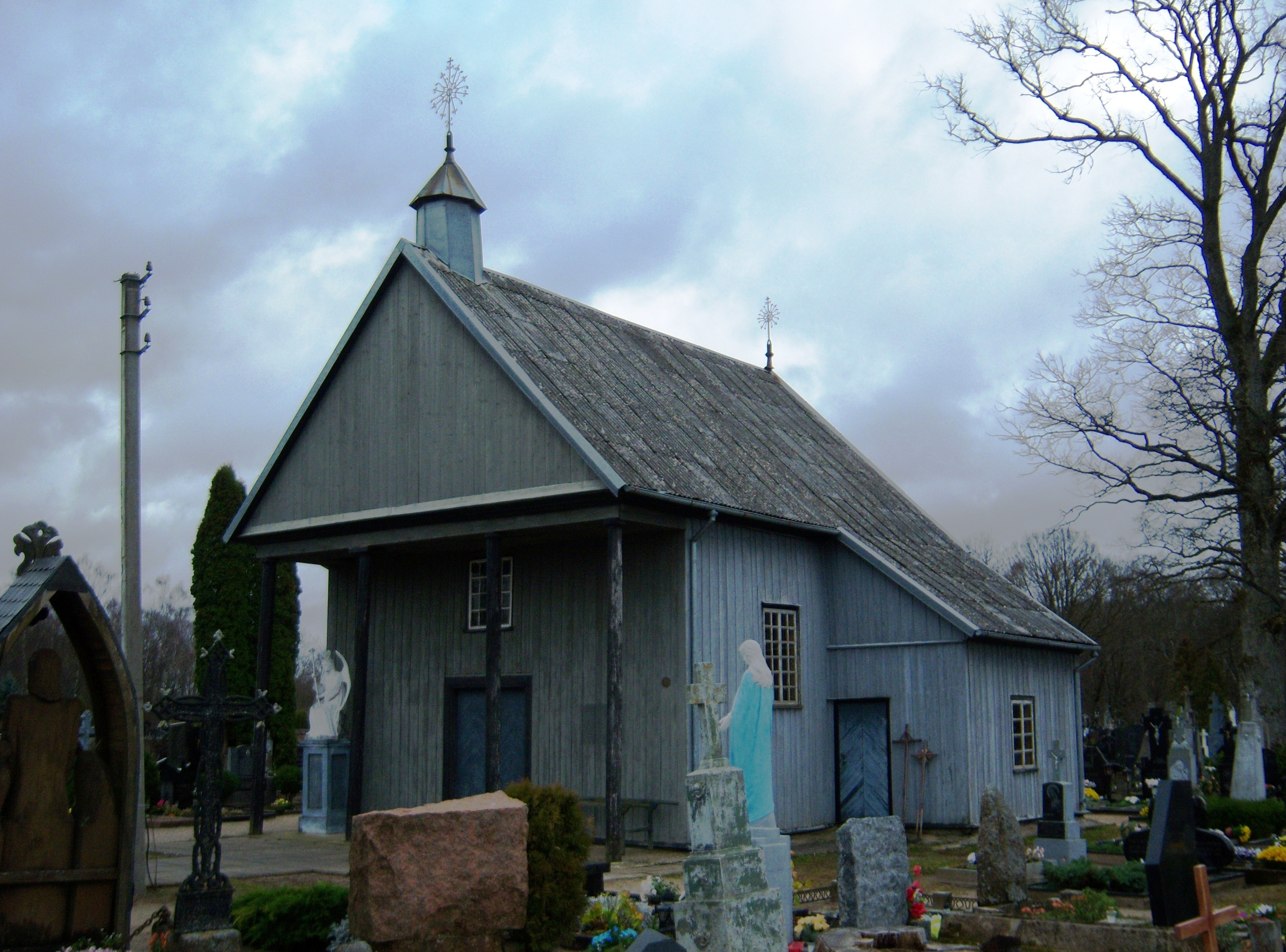 Cemetery chapel in Švėkšna, Šilutė District, Lithuania